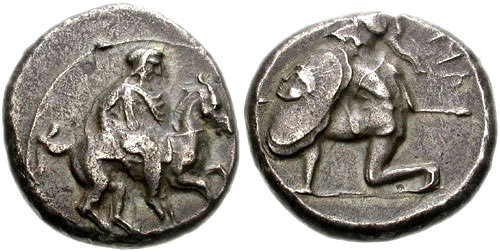 CILICIA, Tarsos. Synnesis III. Circa 425-400 BC